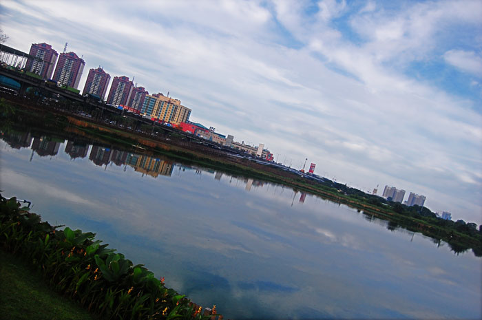 Waduk Ria Rio Jakarta